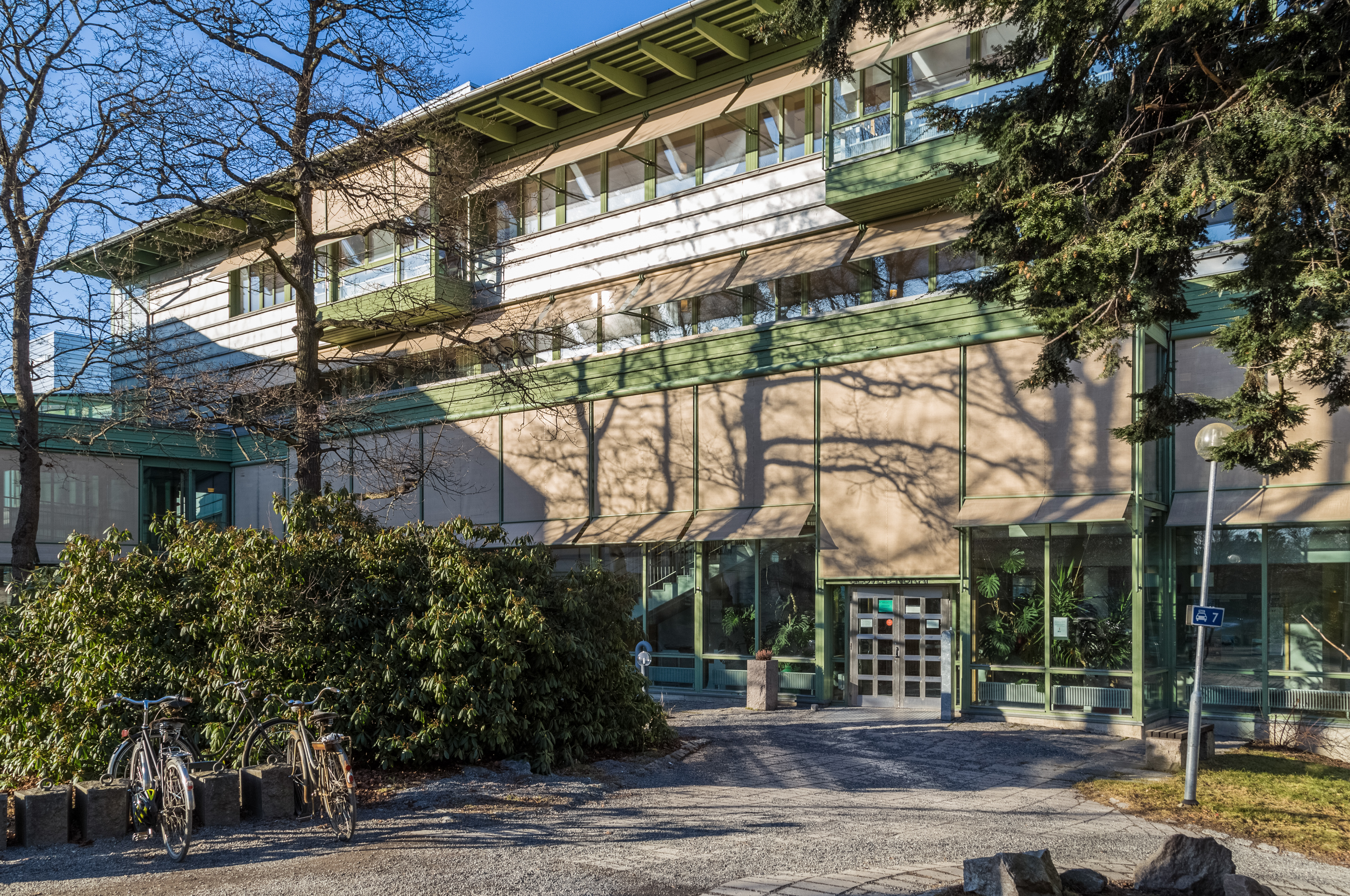 House of Geosciences, Stockholm University, Sweden. Building S: Student services, geological sciences, natural geography including quaternary geology, environmental sciences and analytical chemistry.